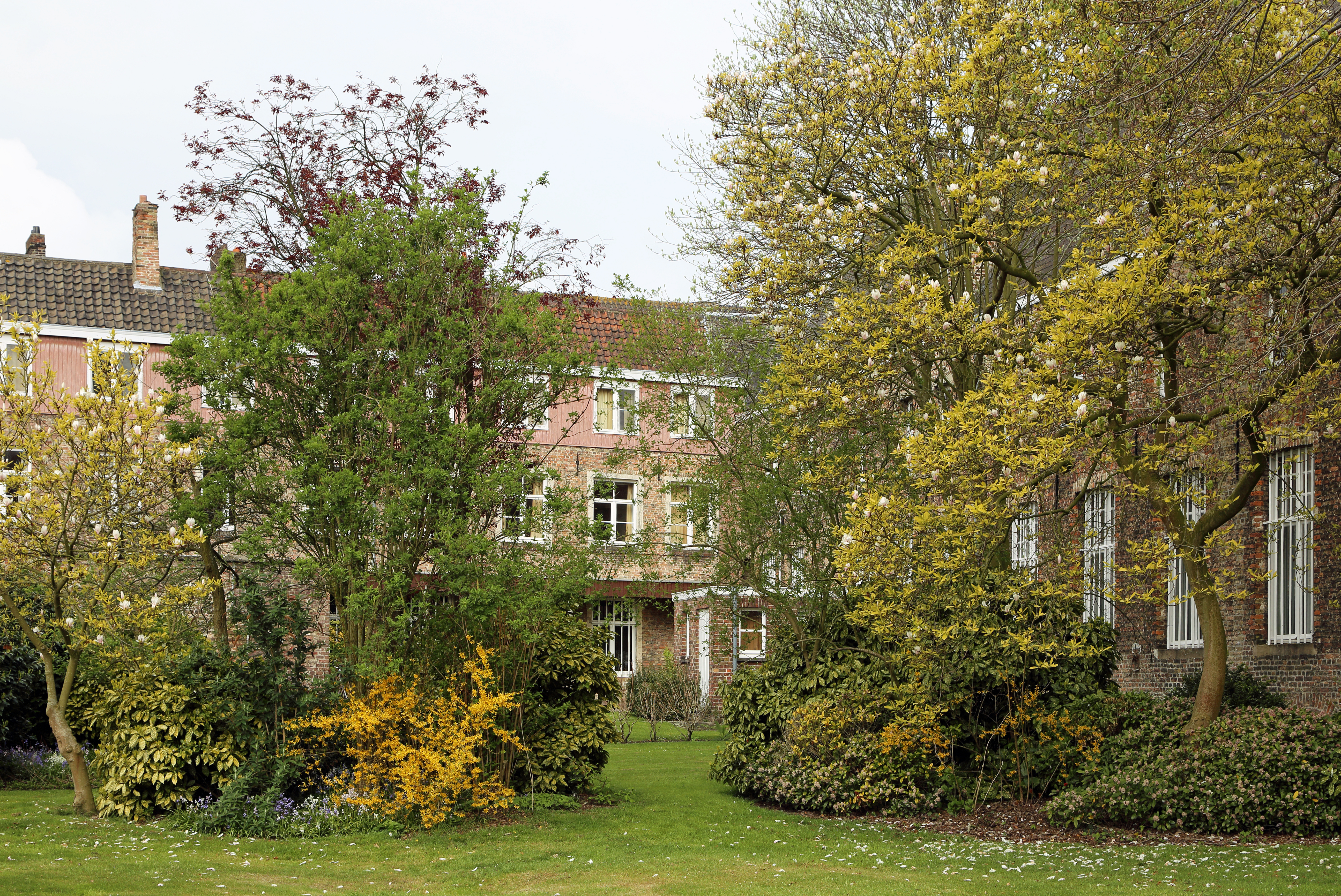 Bruges (Belgium): the garden of St Godelieve monastery